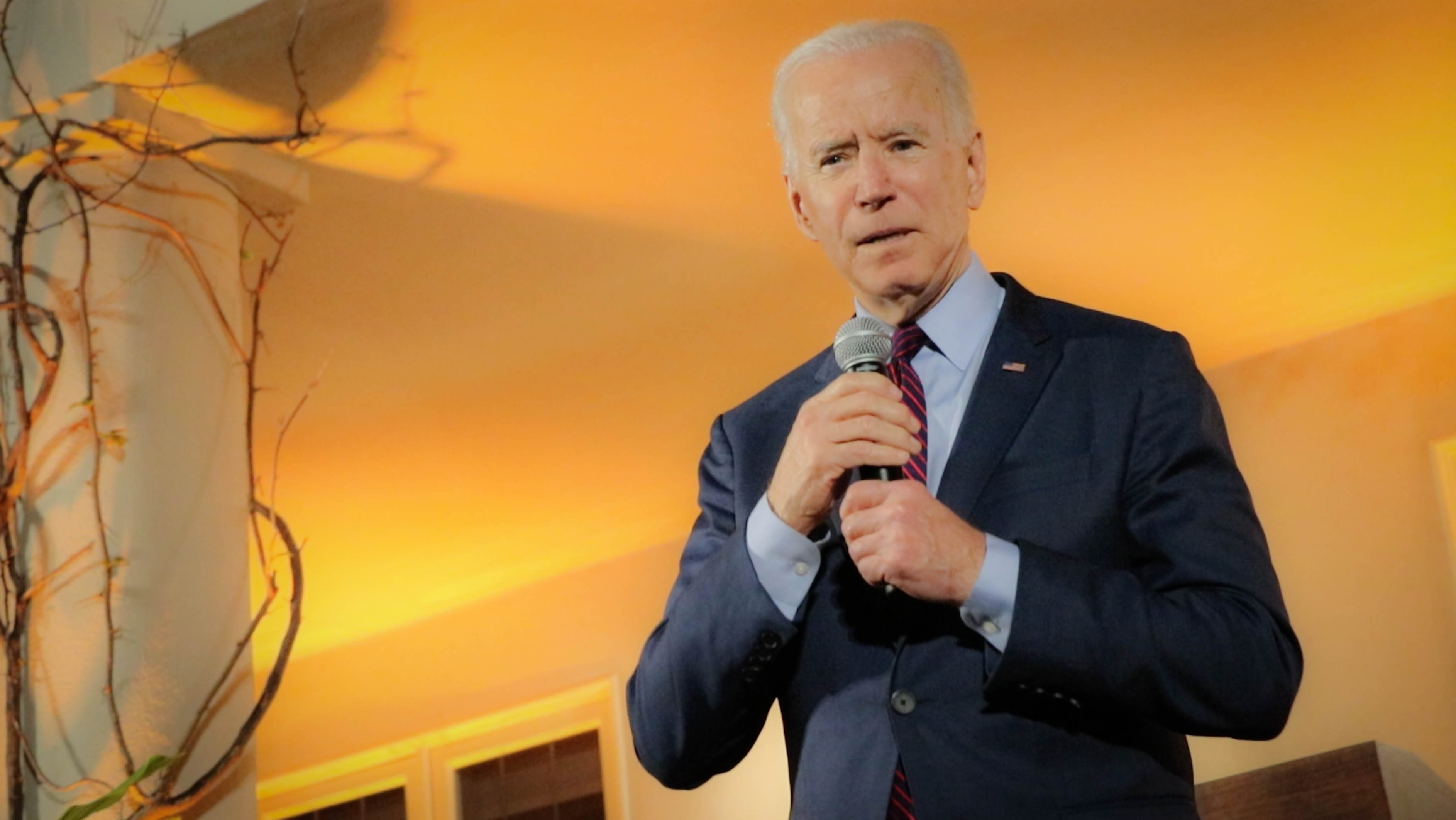 Biden event in Bel Air